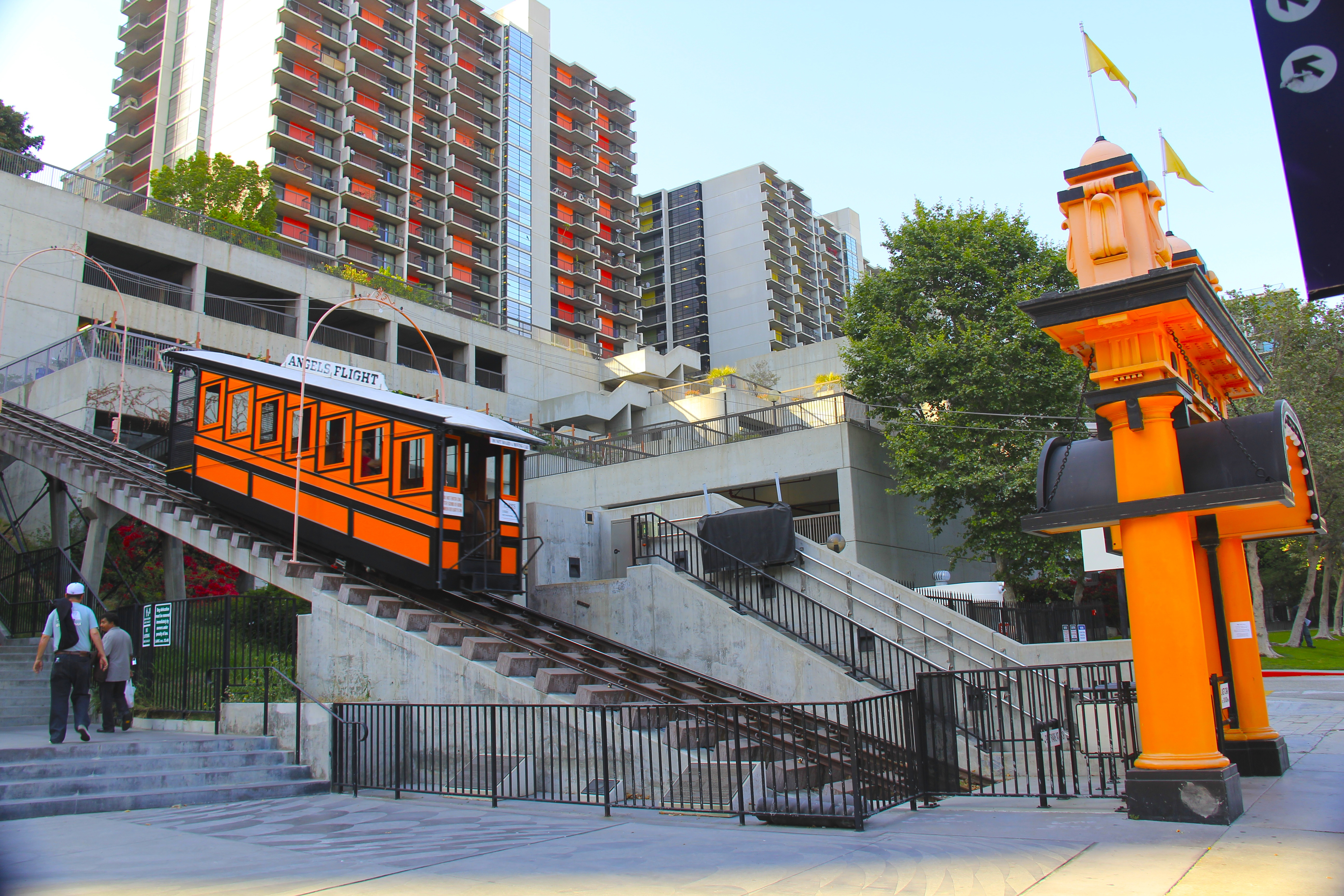 Angels Flights-Downtown Los Angeles